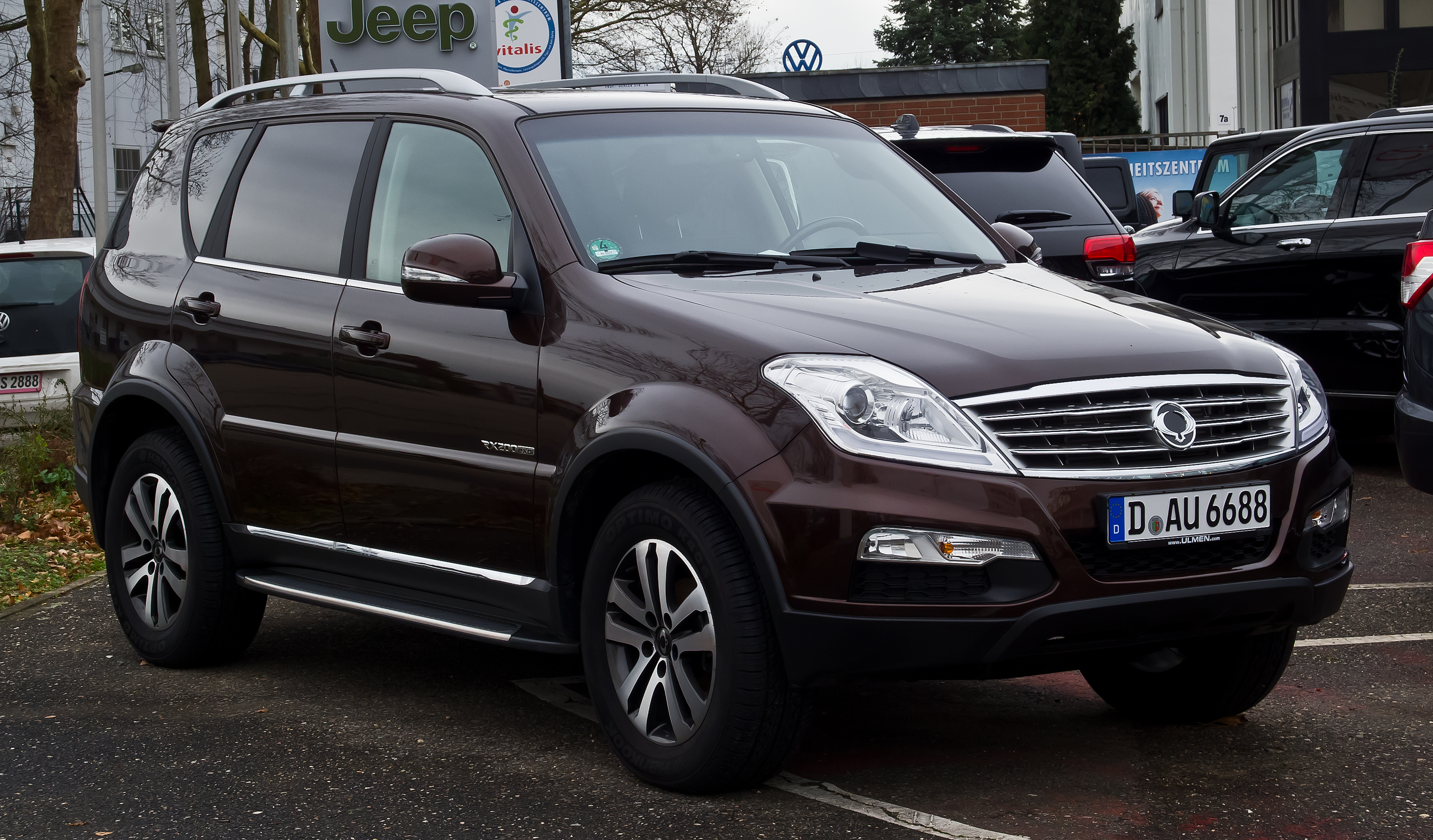 SsangYong Rexton W RX200e-XDi Sapphire (2. Facelift)